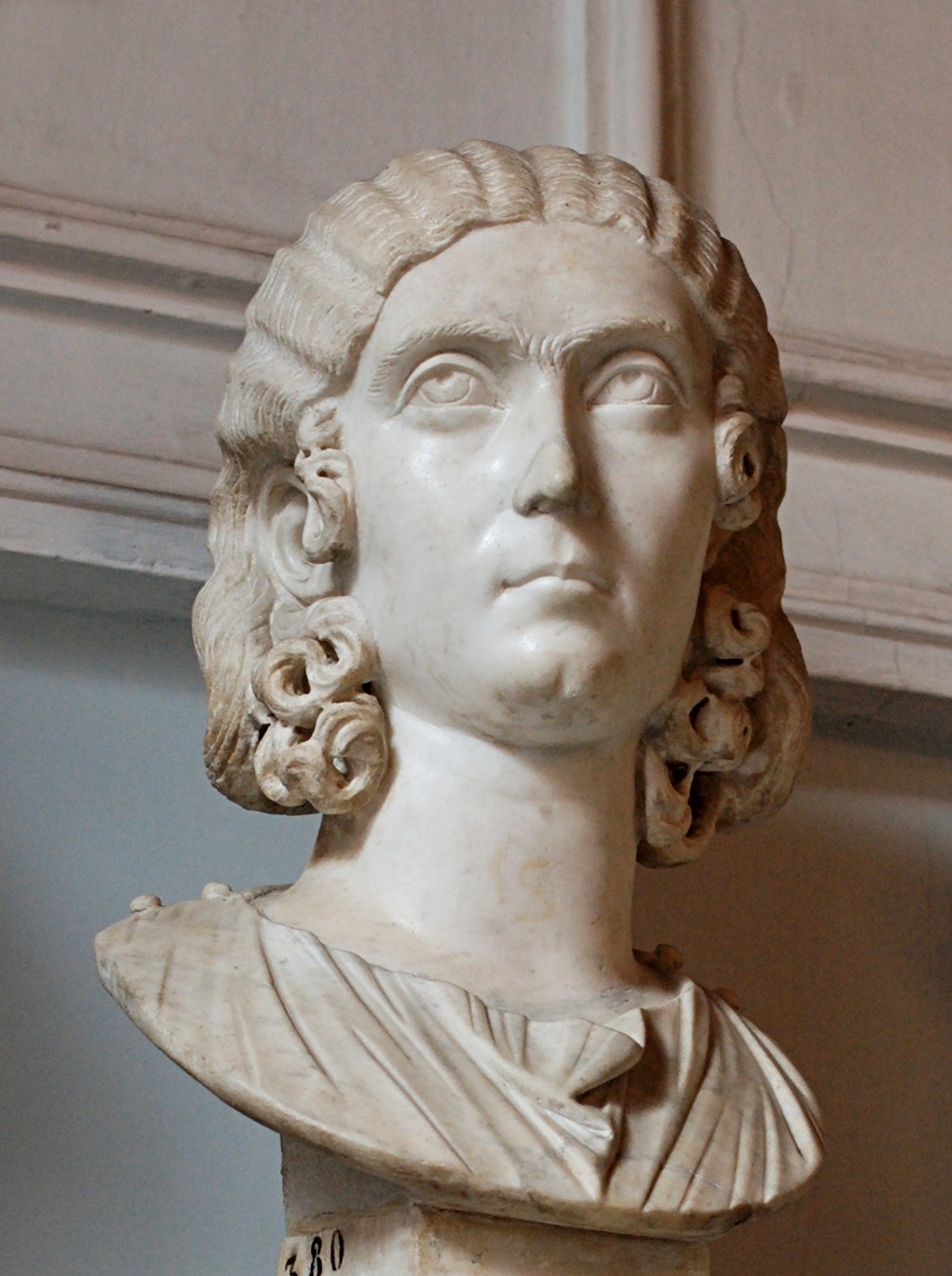 Female portrait, probably that of Julia Cornelia Paula, first wife of Emperor Elagabalus. Marble, Roman artwork, first half of the 3rd century CE.